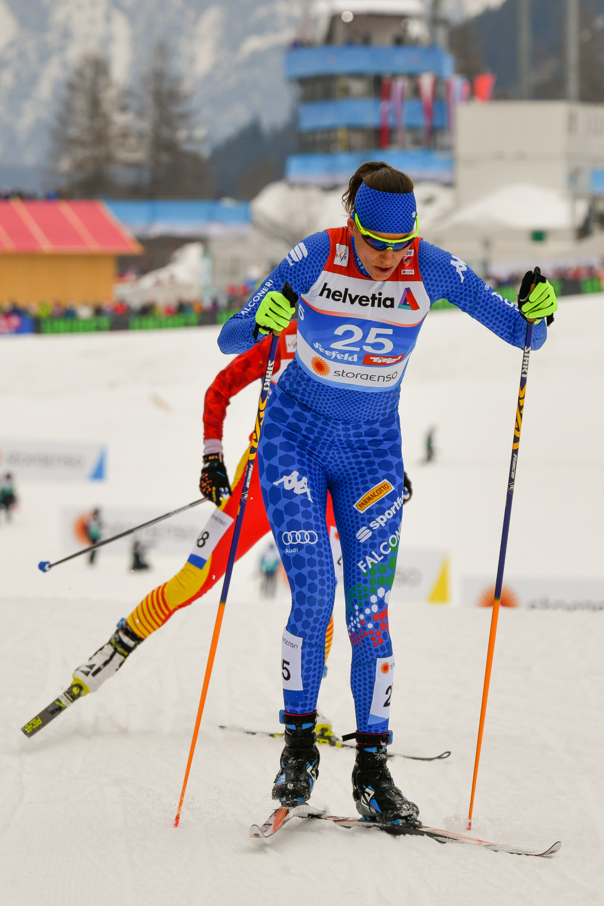 FIS Nordic Wolrd Ski Championships Seefeld 2019 - Ladies 30km Mass Start Free. Picture shows Sara Pellegrini (ITA).